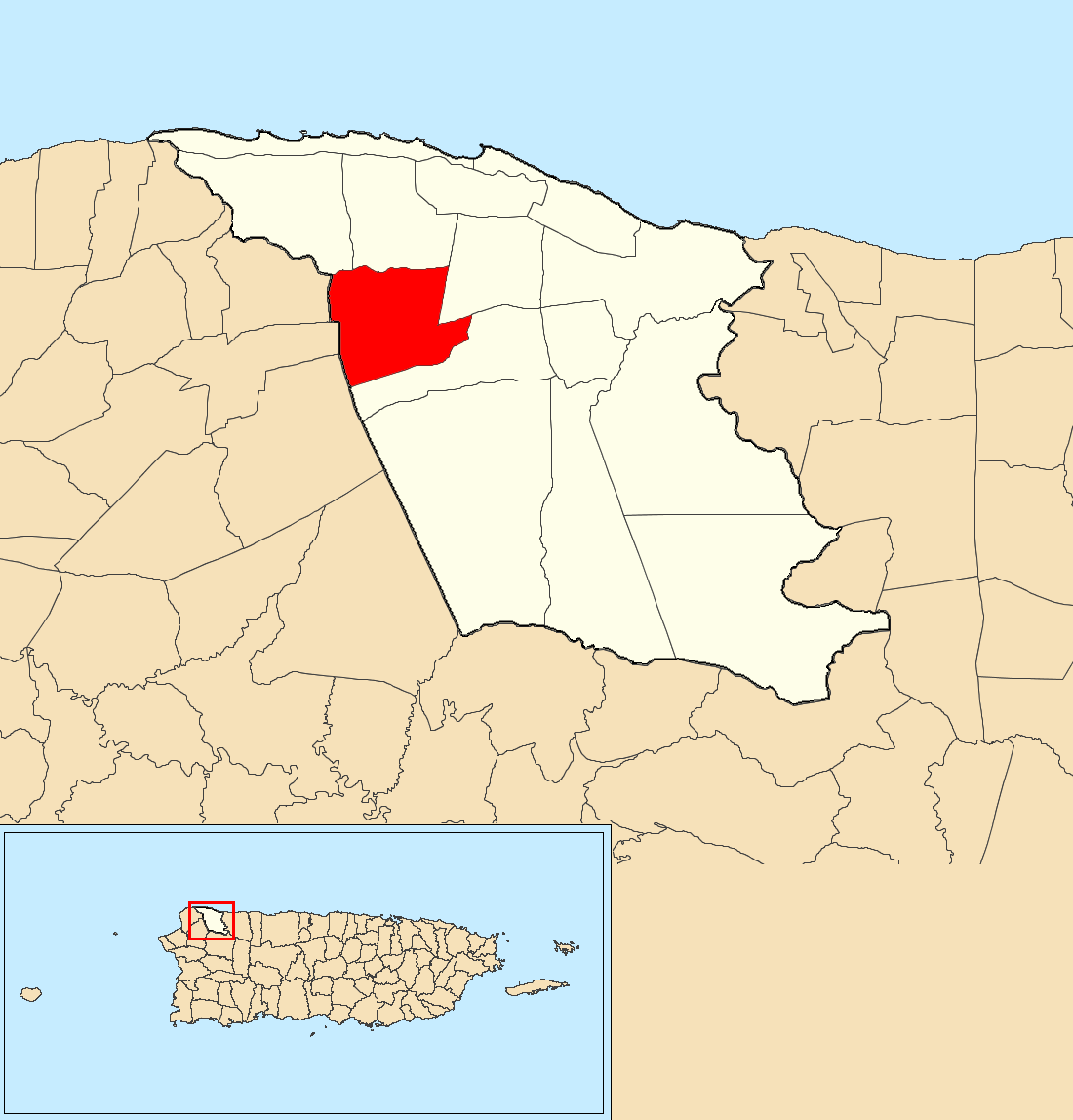 Guerrero, Isabela, Puerto Rico locator map